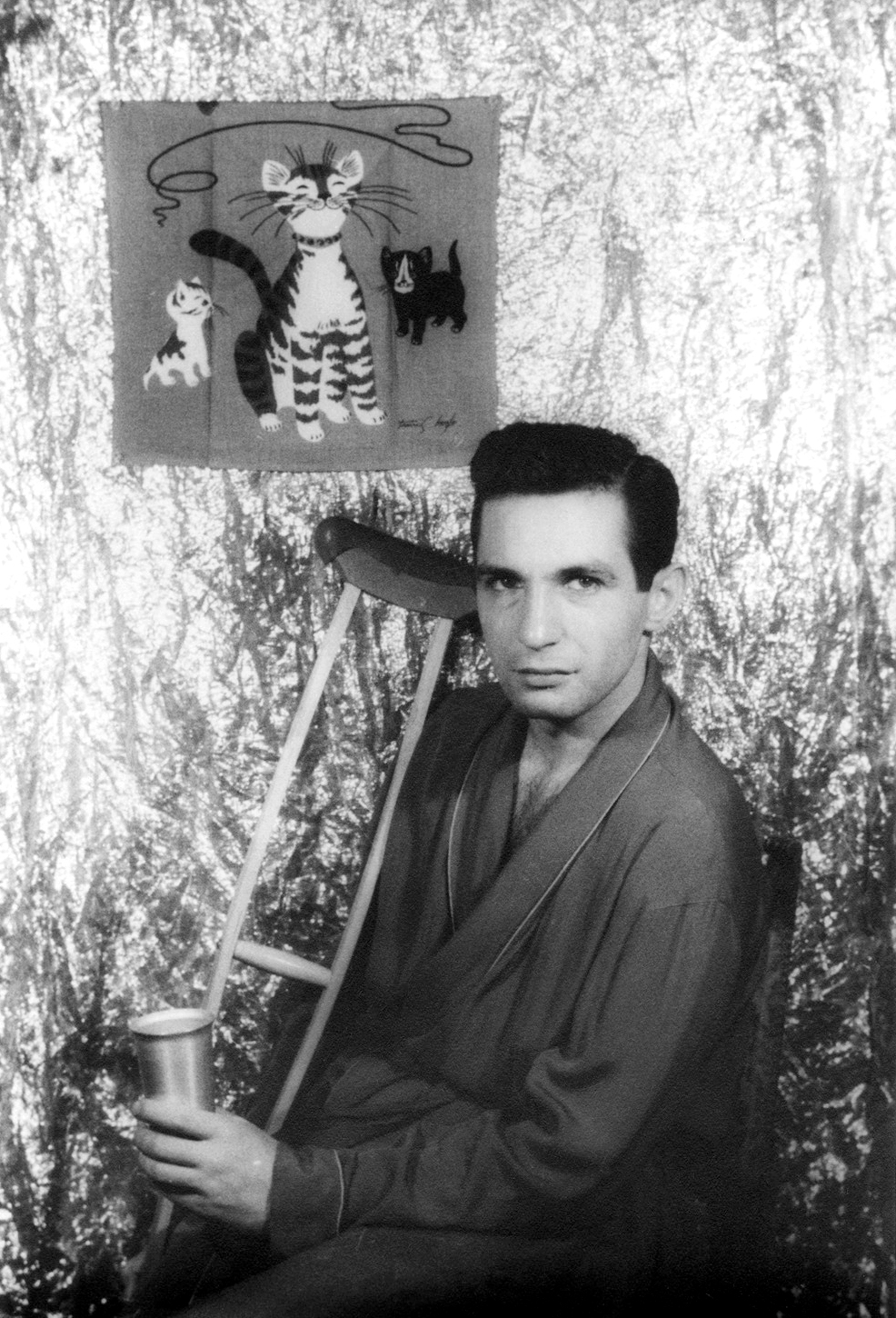 Portrait photograph of Ben Gazzara as Brick in the original Broadway production of Cat on a Hot Tin Roof